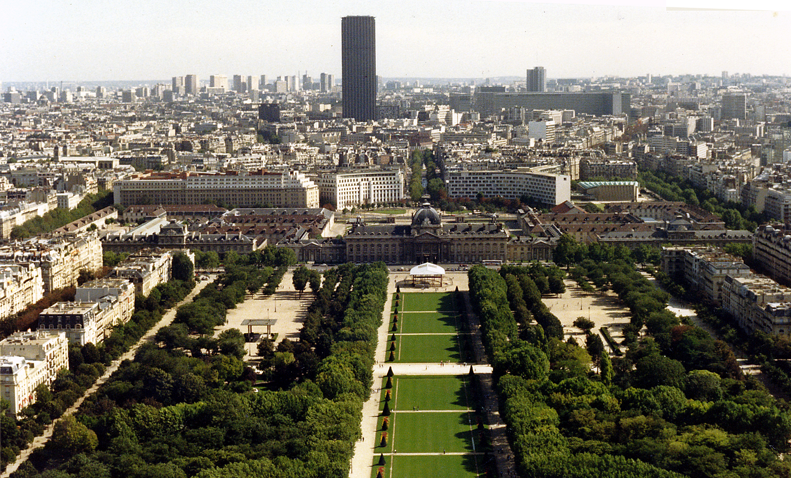 A view towards Montparnasse from Eiffel Tower, Paris, 1987. In the foreground l'École militaire